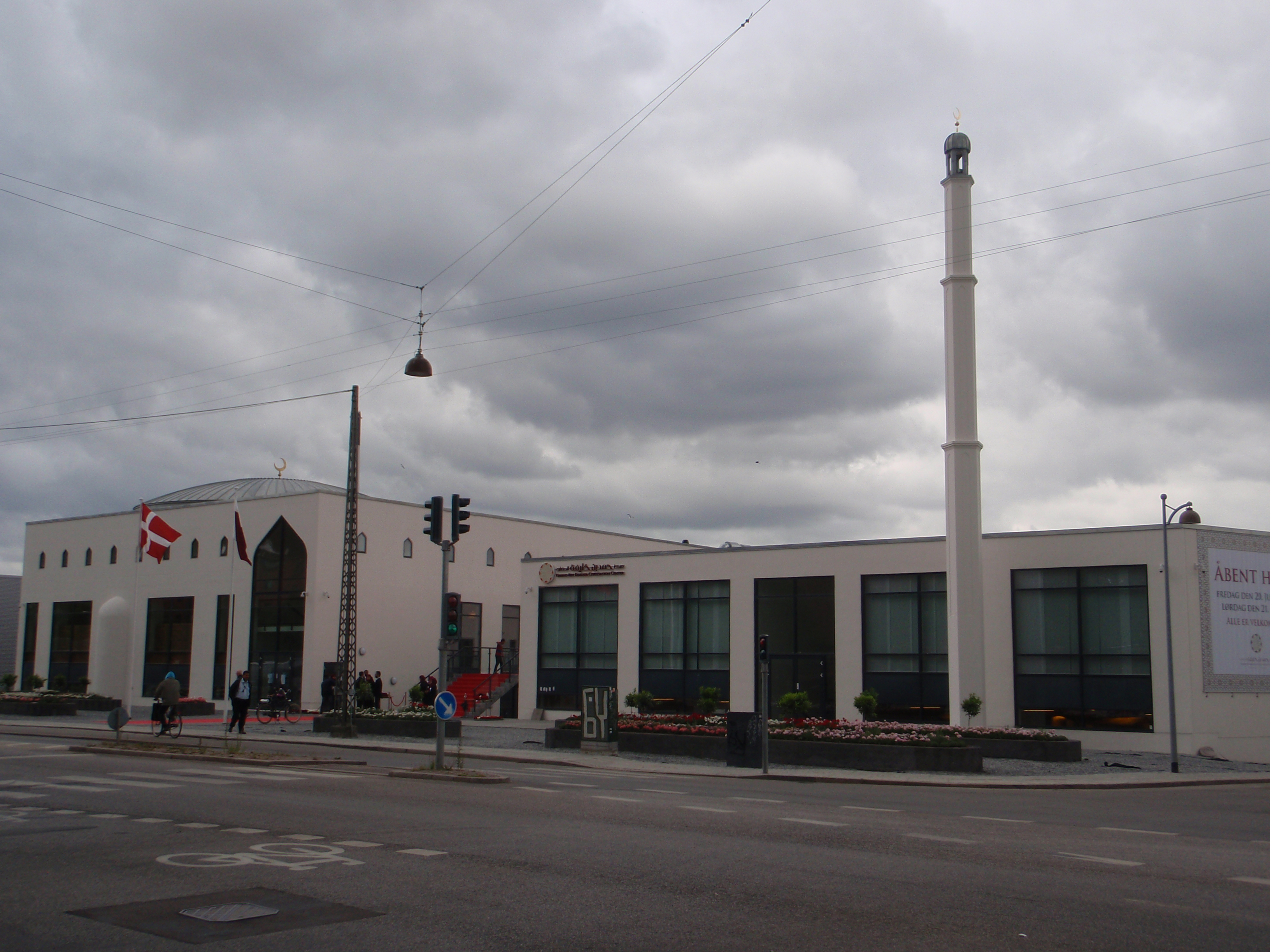 Hamad Bin Khalifa Civilisation Center in Nørrebro, Copenhagen